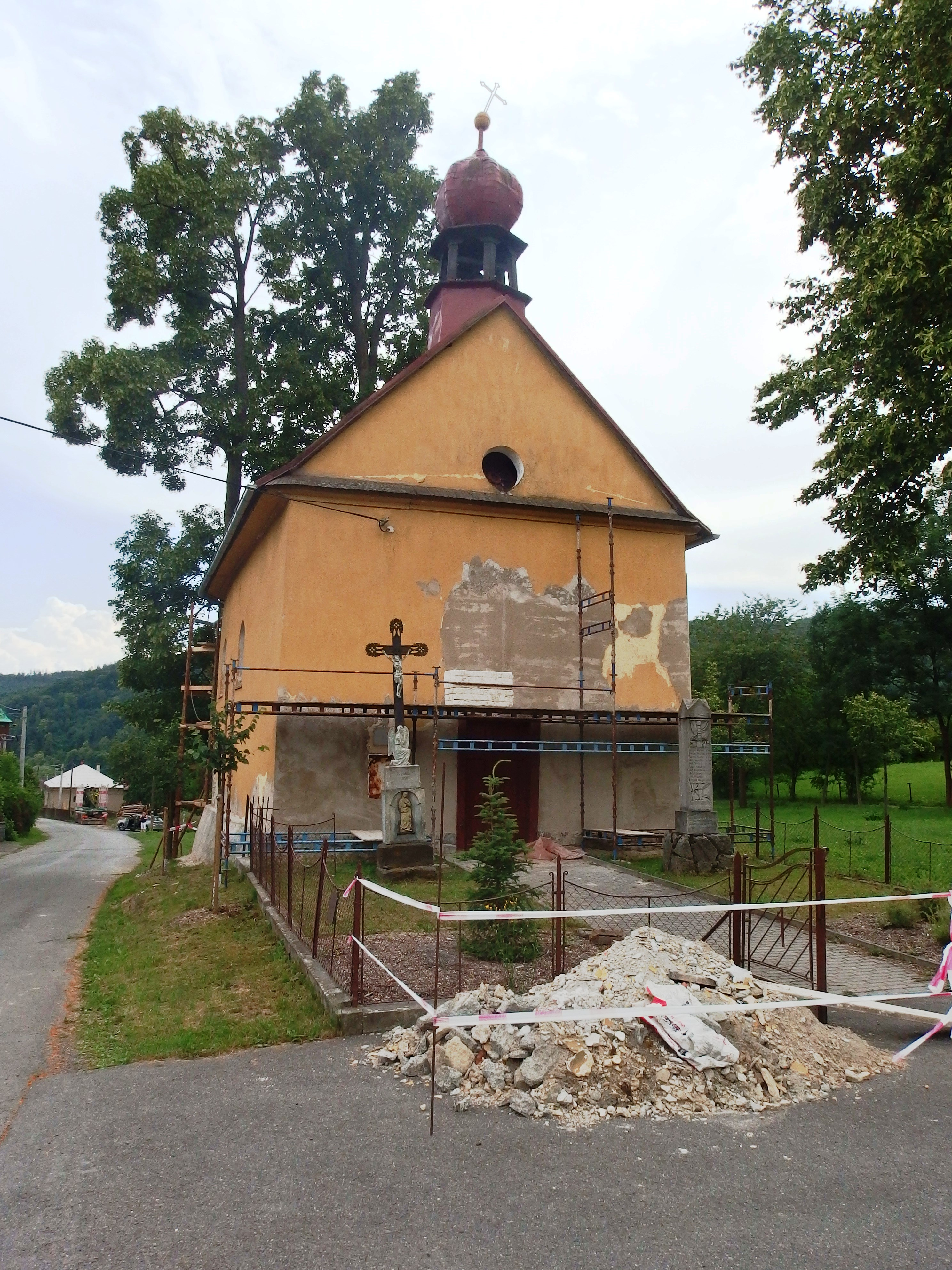 Odry, Nový Jičín District, Czech Republic, part Klokočůvek.